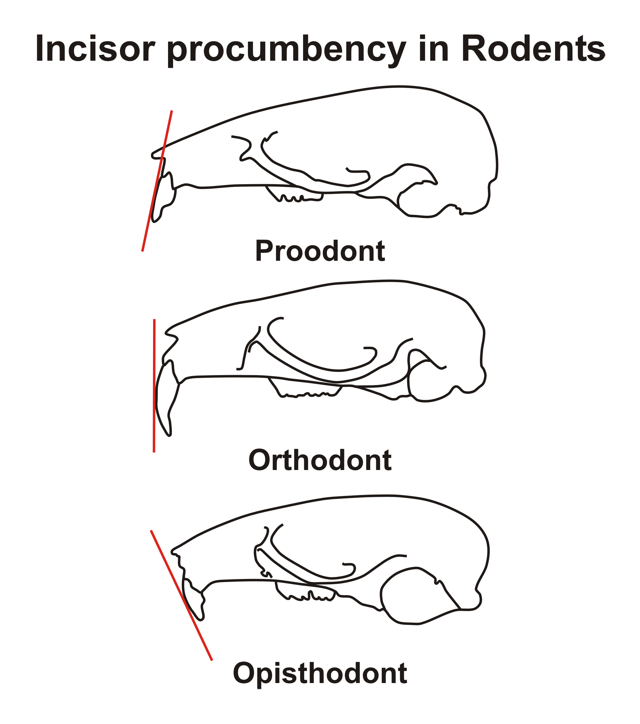 According to Happold, 2013